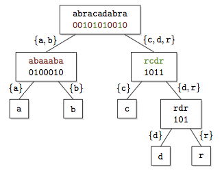 A wavelet tree on the string "abracadabra". This is a PNG version of the PDF